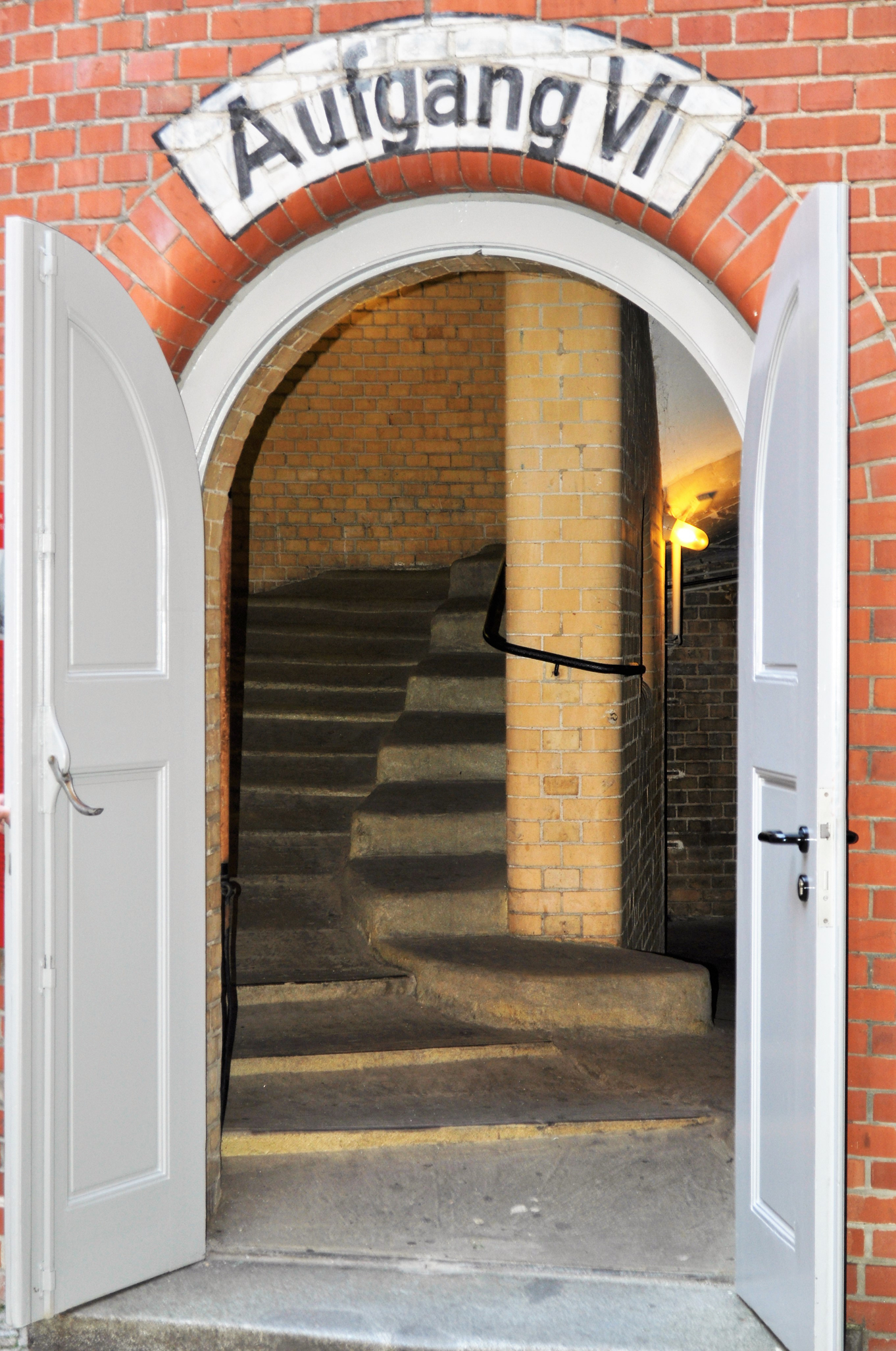 Horse staircase Deutsches Technikmuseum Berlin